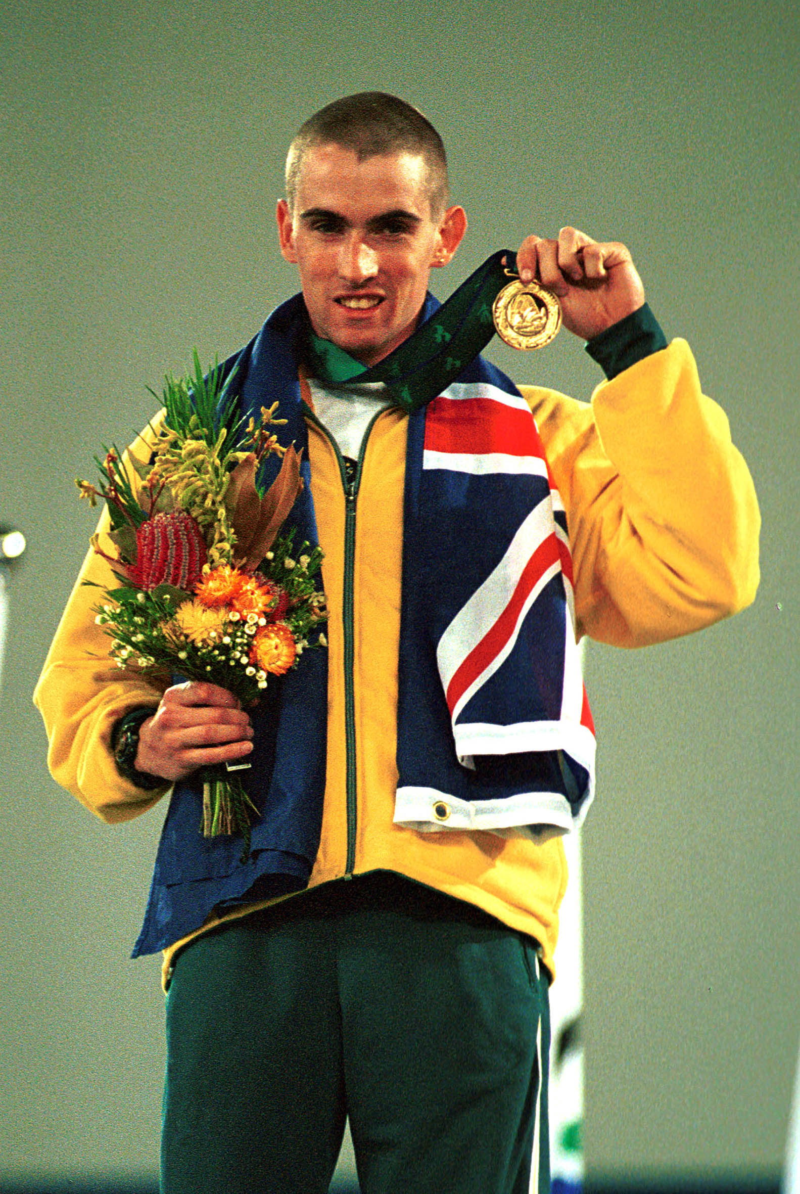 Australian track athlete Tim Sullivan with one of his gold medals won at the 2000 Sydney Paralympic Games